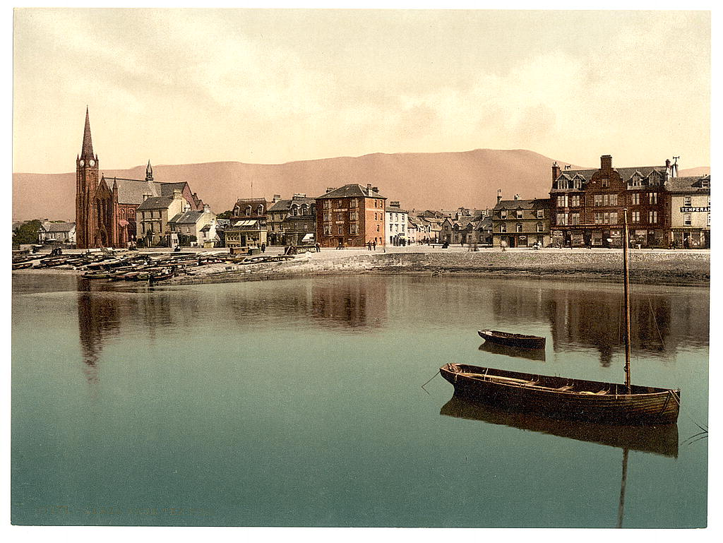 [Largs from the pier, Scotland] [between ca. 1890 and ca. 1900]. 1 photomechanical print : photochrom, color. Notes: Title from the Detroit Publishing Co., catalogue J--foreign section. Detroit, Mich. : Detroit Photographic Company, 1905. Print no. "13172". Forms part of: Views of landscape and architecture in Scotland in the Photochrom print collection. Subjects: Scotland--Largs. Format: Photochrom prints--Color--1890-1900. Rights Info: No known restrictions on reproduction. Repository: Library of Congress, Prints and Photographs Division, Washington, D.C. 20540 USA, Part Of: Views of landscape and architecture in Scotland (DLC) 2001703567 More information about the Photochrom Print Collection is available at Persistent URL: Call Number: LOT 13407, no. 123 [item]